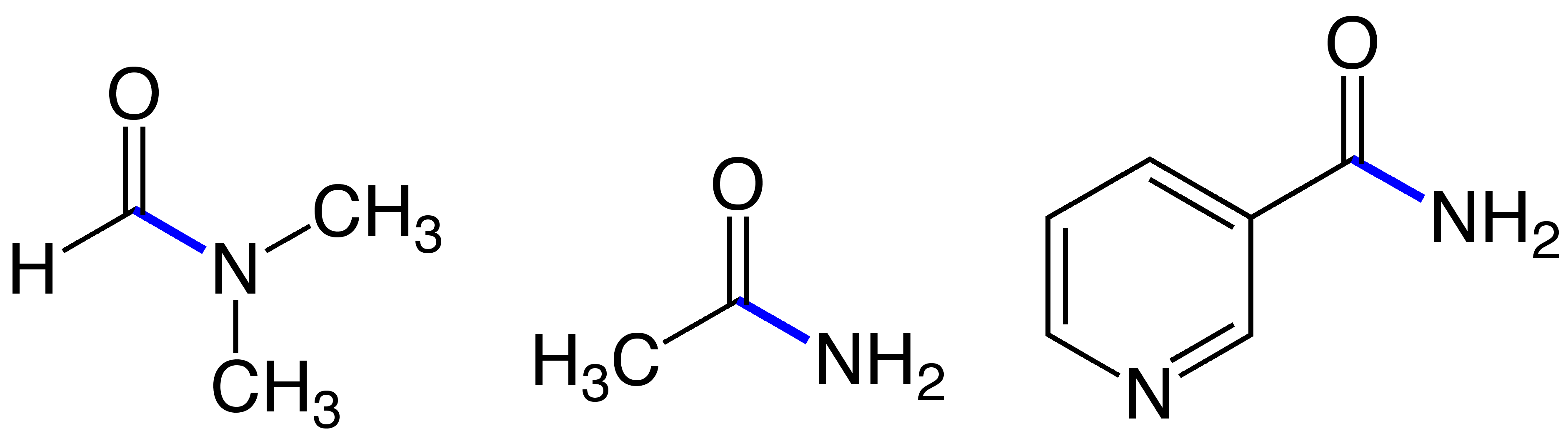 Amide_Bonds_Amides